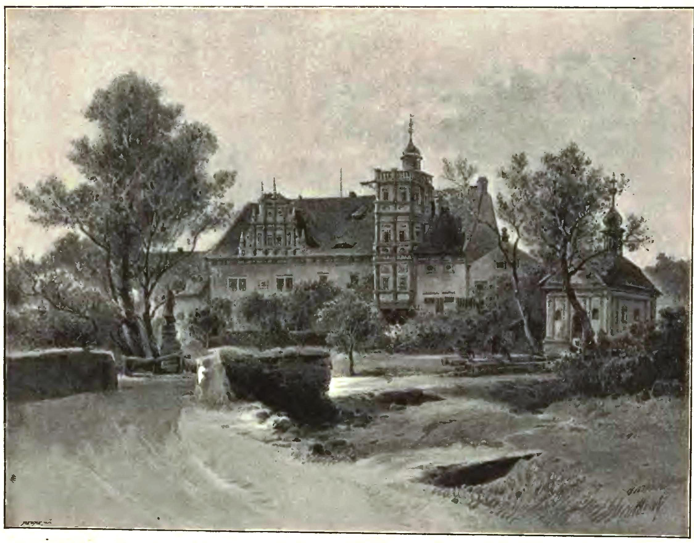 Castle Ahníkov (Hagensdorf) in present-day Czech Republic, demolished in 1985 due to brown coal mining.